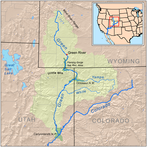 Map of the watershed-basin of the Green River and tributary Yampa River; and the upper Colorado River. Part of the Colorado River Basin in the Western United States.